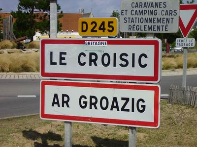 Panneau bilingue